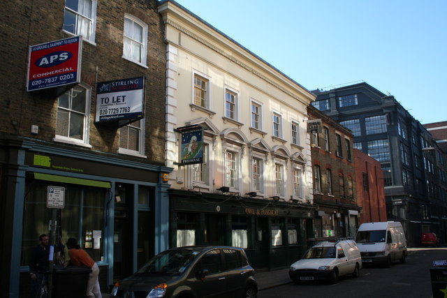 The 'Owl and Pussycat', Redchurch Street, Shoreditch There must be some association of this pub (which is still open) with Edward Lear, but I have not discovered what this is. Redchurch Street is a largely dilapidated street, which, many years ago, was the outlet from Bethnal Green Road into Shoreditch High Street. Then the western end of Bethnal Green Road was cut through on a more southerly alignment, and Church Street (as this then was) became a backwater. It was re-named by the LCC as Redchurch Street later.